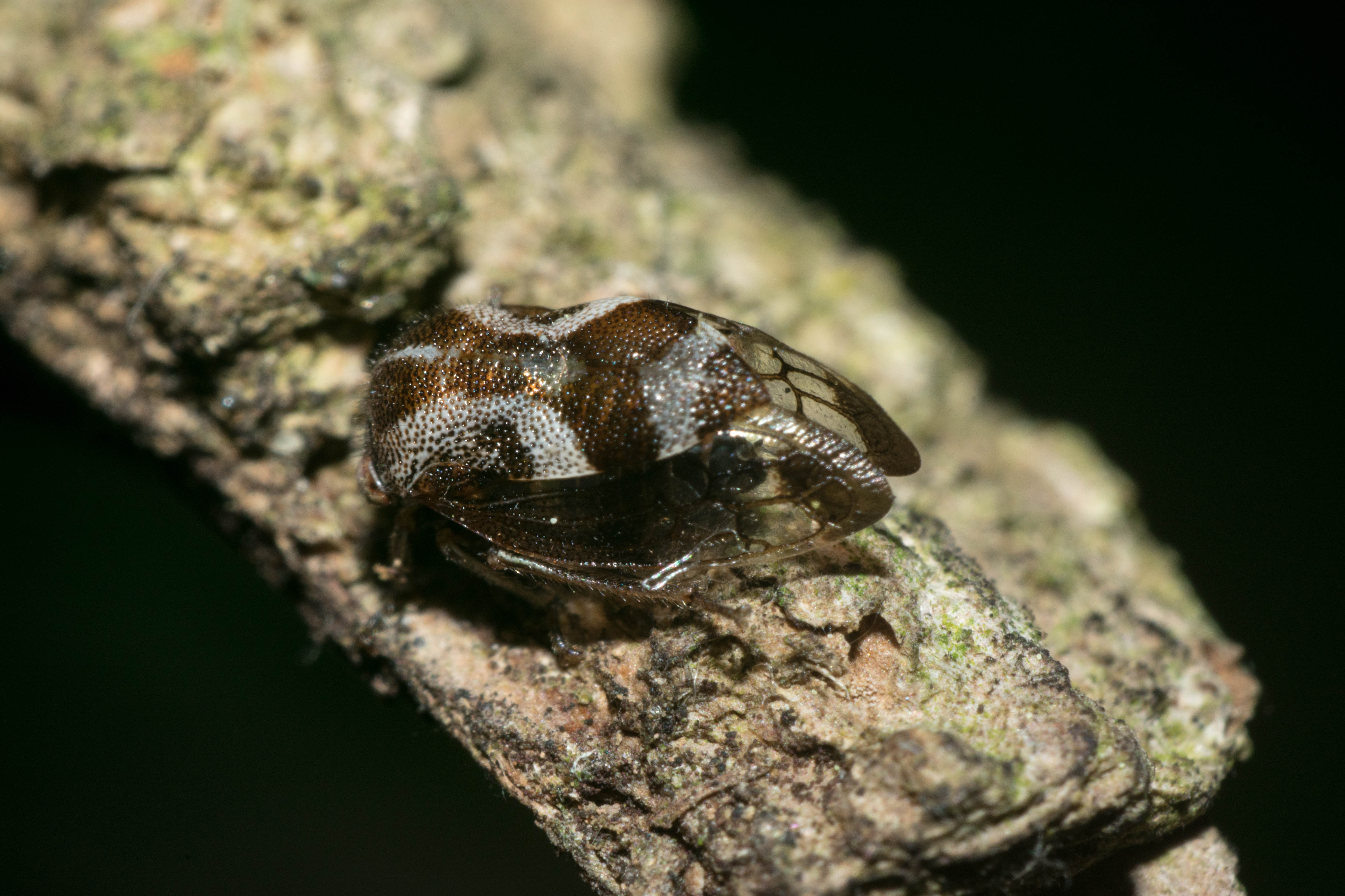 Ophiderma definita on a piece of bark [Ohio, USA]